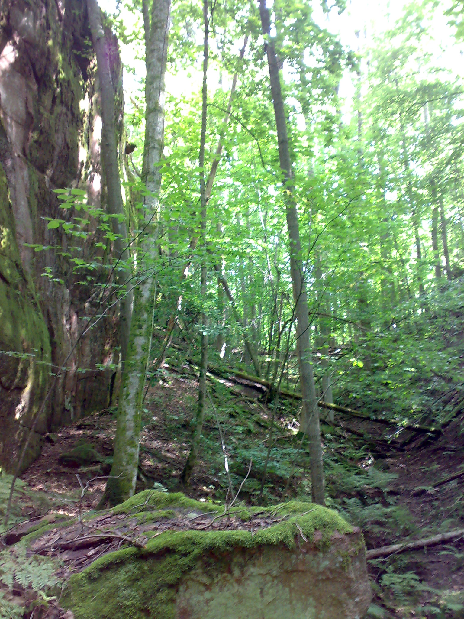 Holtnesdalen Nature Reserve, Hurum, Norway